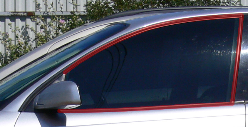 A photo of a car window with the glass run channels highlighted.